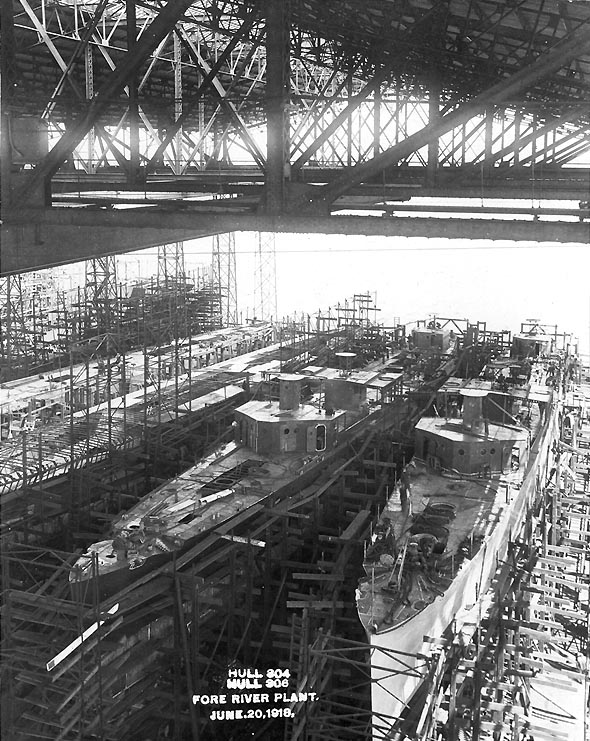 Fore River Shipbuilding Company, Quincy, Massachusetts USS Israel (Destroyer # 98) and USS Maury (Destroyer # 100) on the building ways, 20 June 1918. They were the builder's hull #s 304 and 306. Two more destroyers are further to the left, with their construction less advanced. Original caption: “Photo # NH 43023 USS Israel and USS Maury on the building ways, 20 June 1918” — removed caption